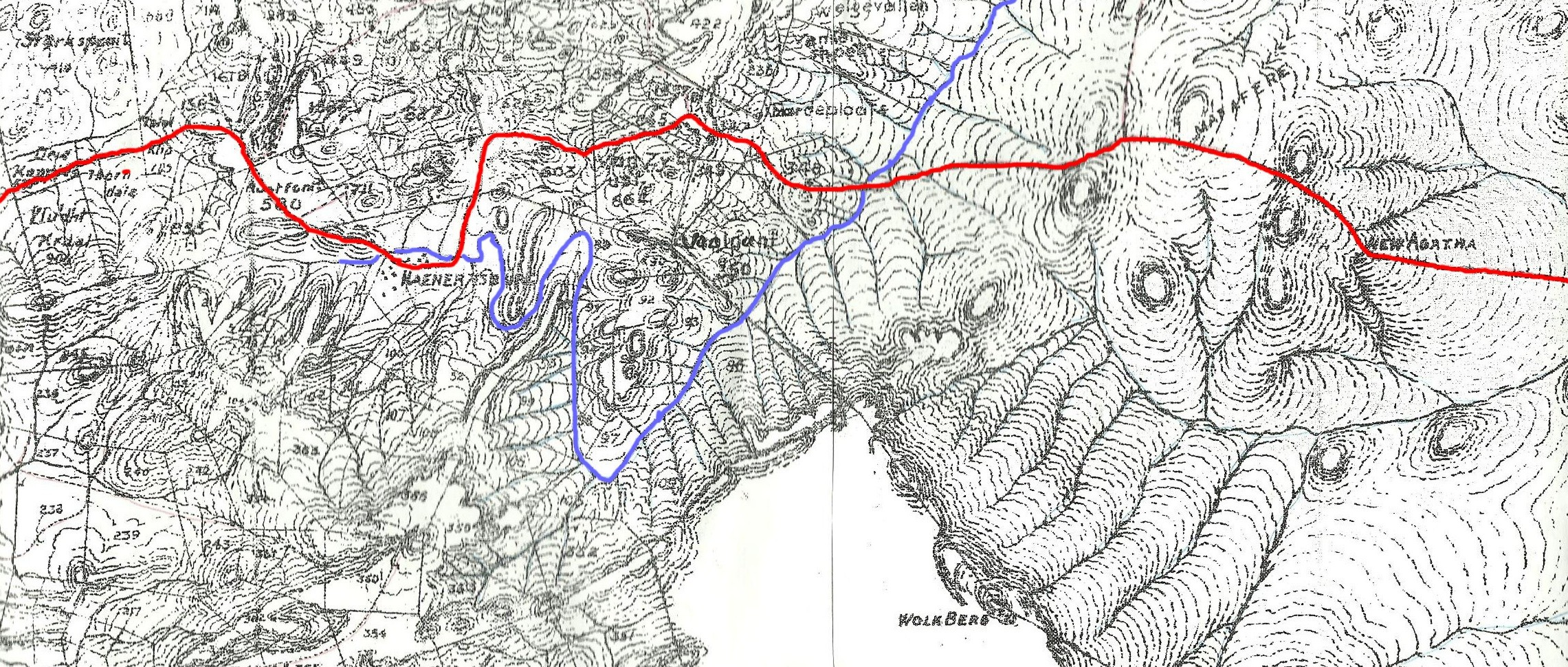 Area where a Long Tom gun was destroyed during the Anglo-Boer War, 1899-1902